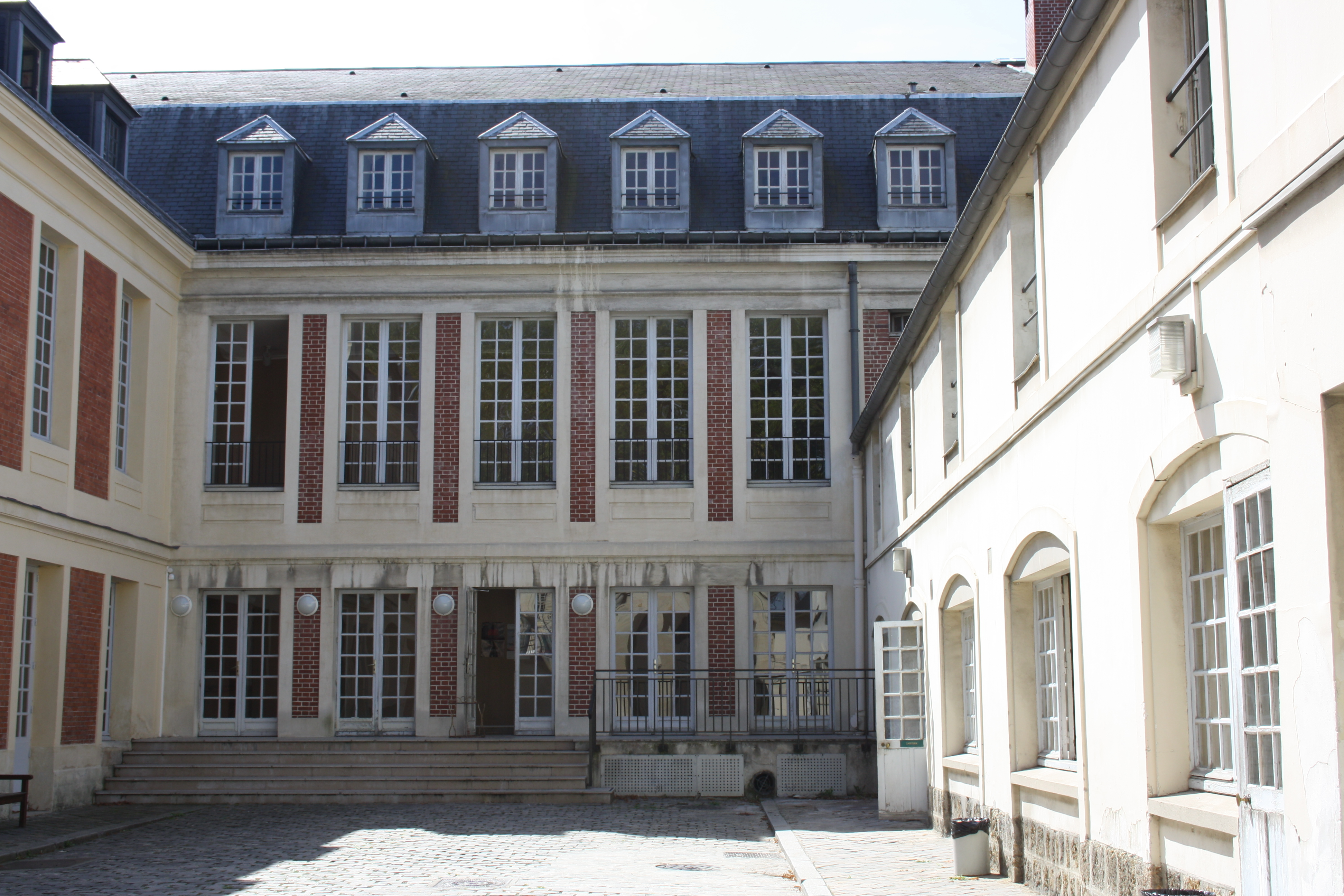 Hôtel de la Chancelleriee was built in 1673-1674. It is located 24 Chancellerie street in Versailles, France. This place is a National Heritage Site of France.